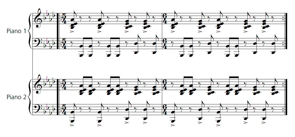 Excerpt created from ear of third movement of Double Sextet by Steve Reich.